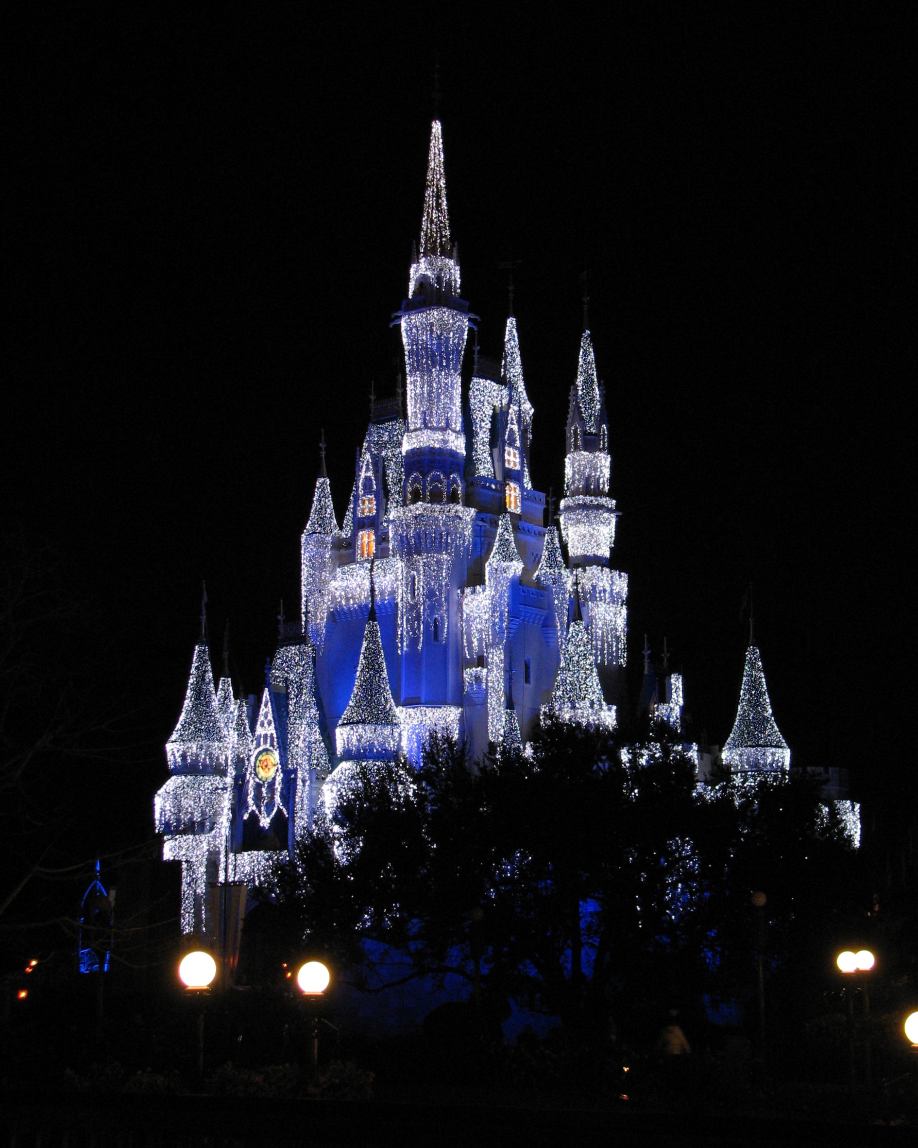 Cinderella Castle in Walt Disney World decorated for Christmas 2007.